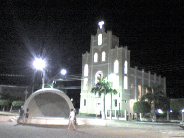 São Pedro Church, in Baixo Guandu, Espírito Santo, Brazil.